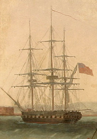 To Trafalgar, by Thomas Buttersworth - Victory (foreground) and HMS Eurylaus on the left at anchor, by Thomas Buttersworth. As described on a very early label on its reverse, this painting depicts the anchorage off Spithead, England on the morning of 15 September 1805 as Lord Admiral Nelson assumes command of his flagship HMS Victory. As Nelson’s flag is raised at the foremast, an armed cutter gets underway astern. Closer inshore, still at anchor, is the 74 gun third rate HMS Eurylaus, Victory’s nimble escort under the command of Captain Henry Blackwood.